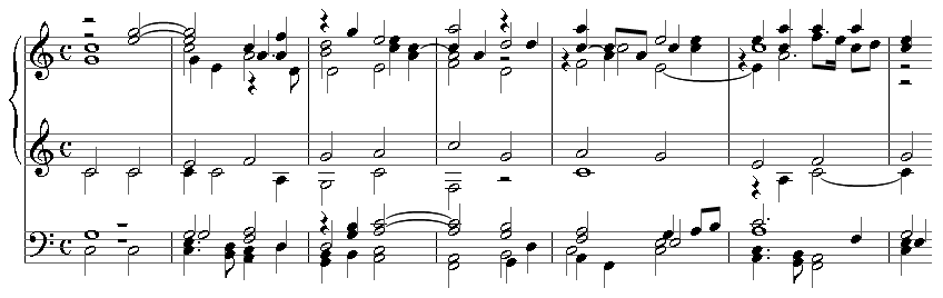 First bars of Ascendo ad Patrem meum X Vocibus by Arnolt Schlick (c.1466–1521). Made using Sibelius 4 by Jashiin. The music quoted is in the public domain, and the image is hereby released into the public domain by Jashiin.